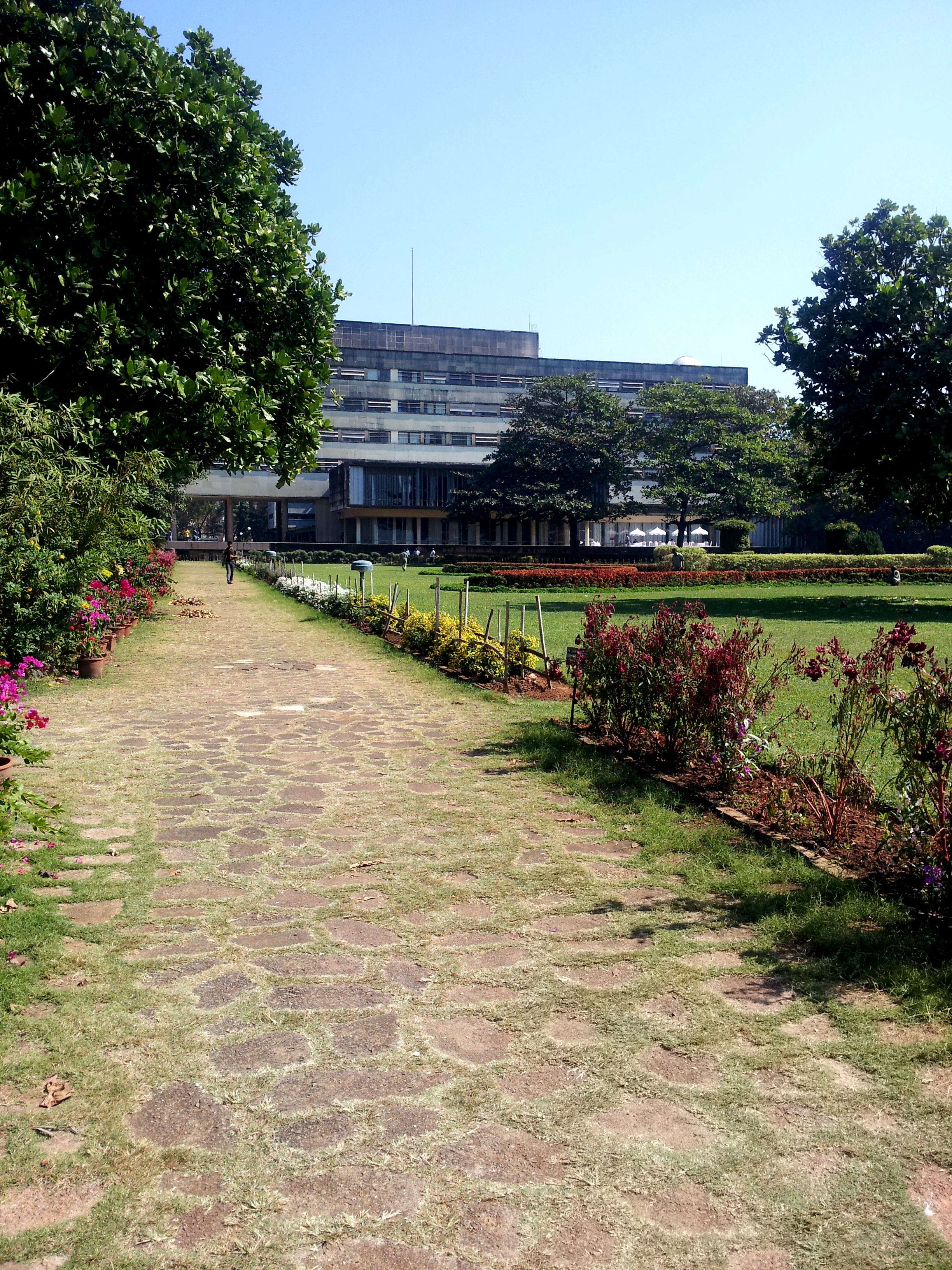 Tata Institute of Fundamental Research, Mumbai, India